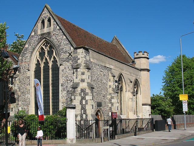 The Lovekyn Chapel, Kingston. The chapel dates from 1309, and has an interesting history (see 1273941 for more detail). Although now part of Kingston Grammar School across the road, it is still used for carol concerts and other religious services. Its 700th anniversary was being celebrated with an exhibition nearby at the time this photo was taken.